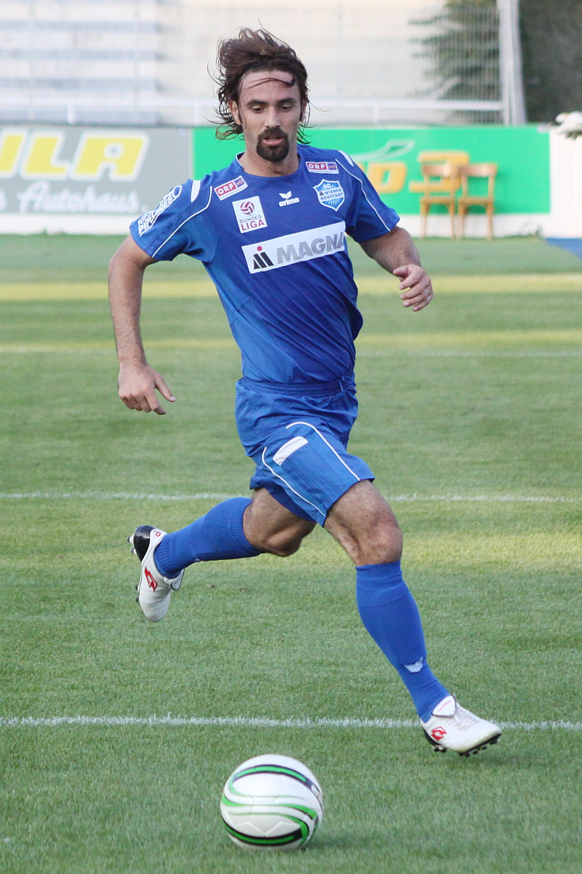 Diego Viana - SC Magna Wiener Neustadt